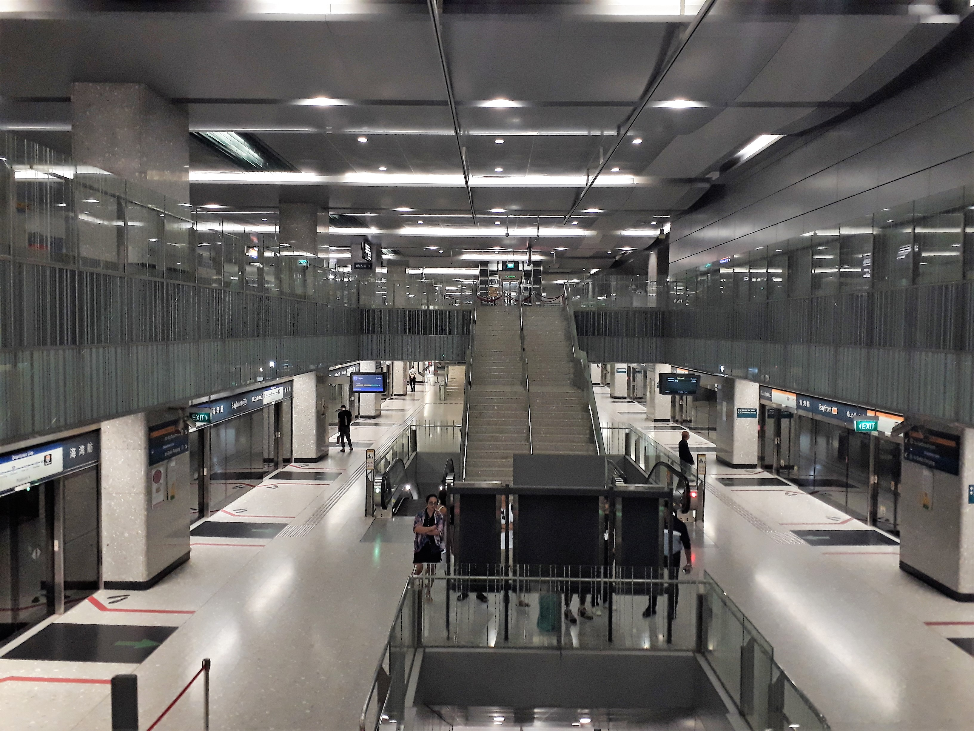 Platforms A and B of Bayfront station